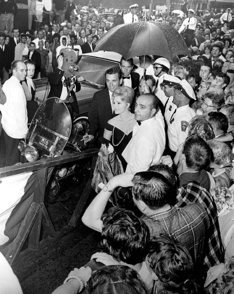 Press photo of Zsa Zsa Gabor arriving at a gala movie premiere.